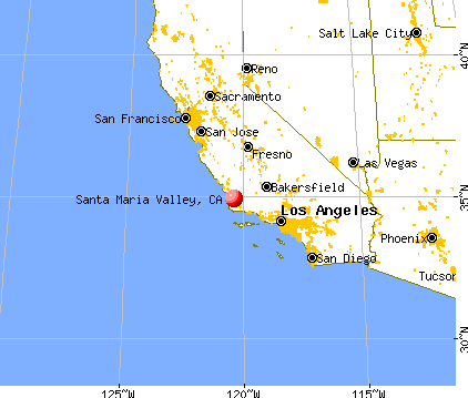 sm cal map